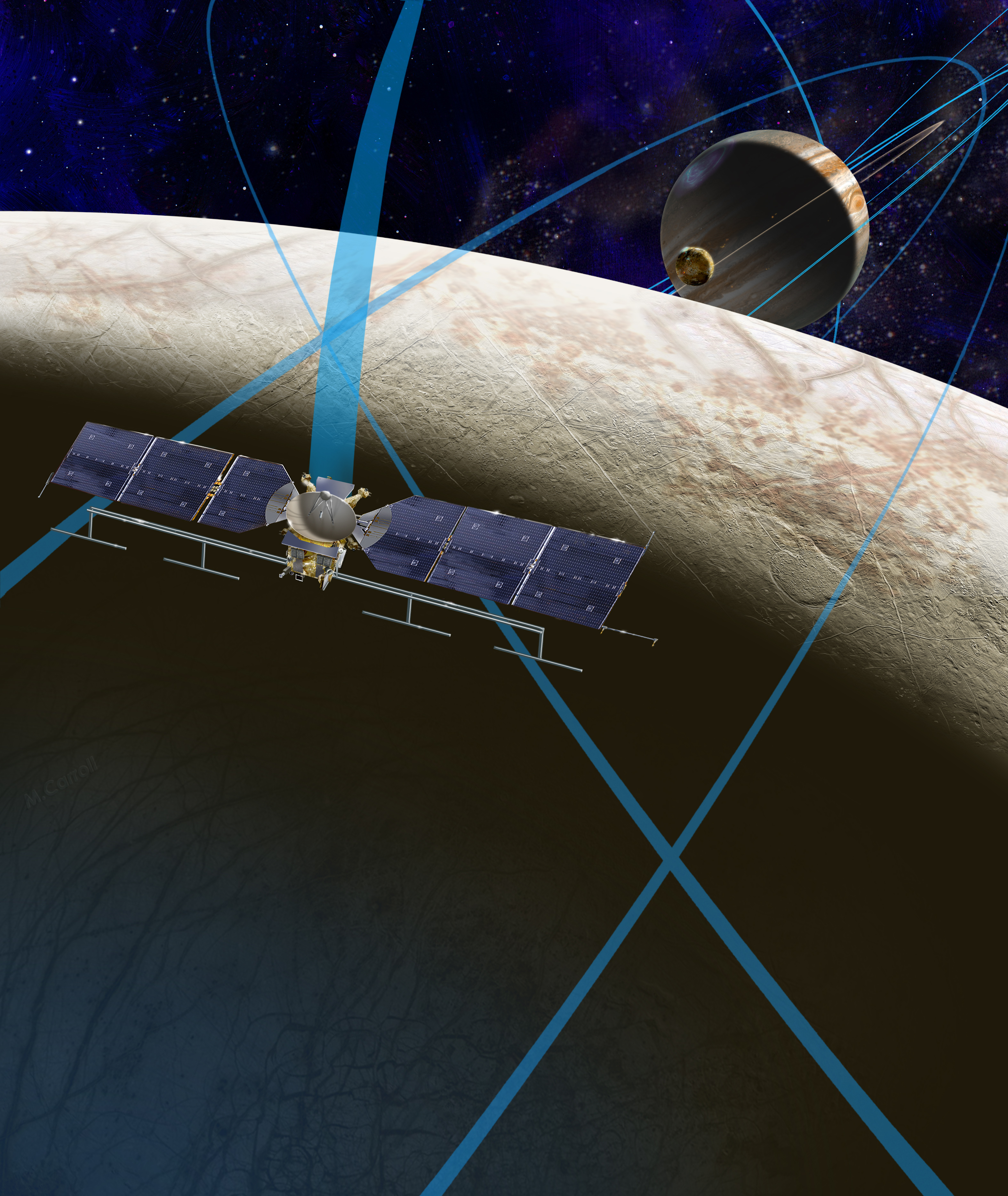 Artist's concept of the Europa Clipper mission investigating Jupiter's moon Europa.